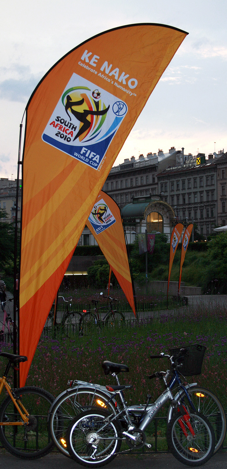 Presentation of the nine host-cities of the 2010 FIFA World Cup in South Africa during the UEFA Euro 2008 in Vienna (Austria).